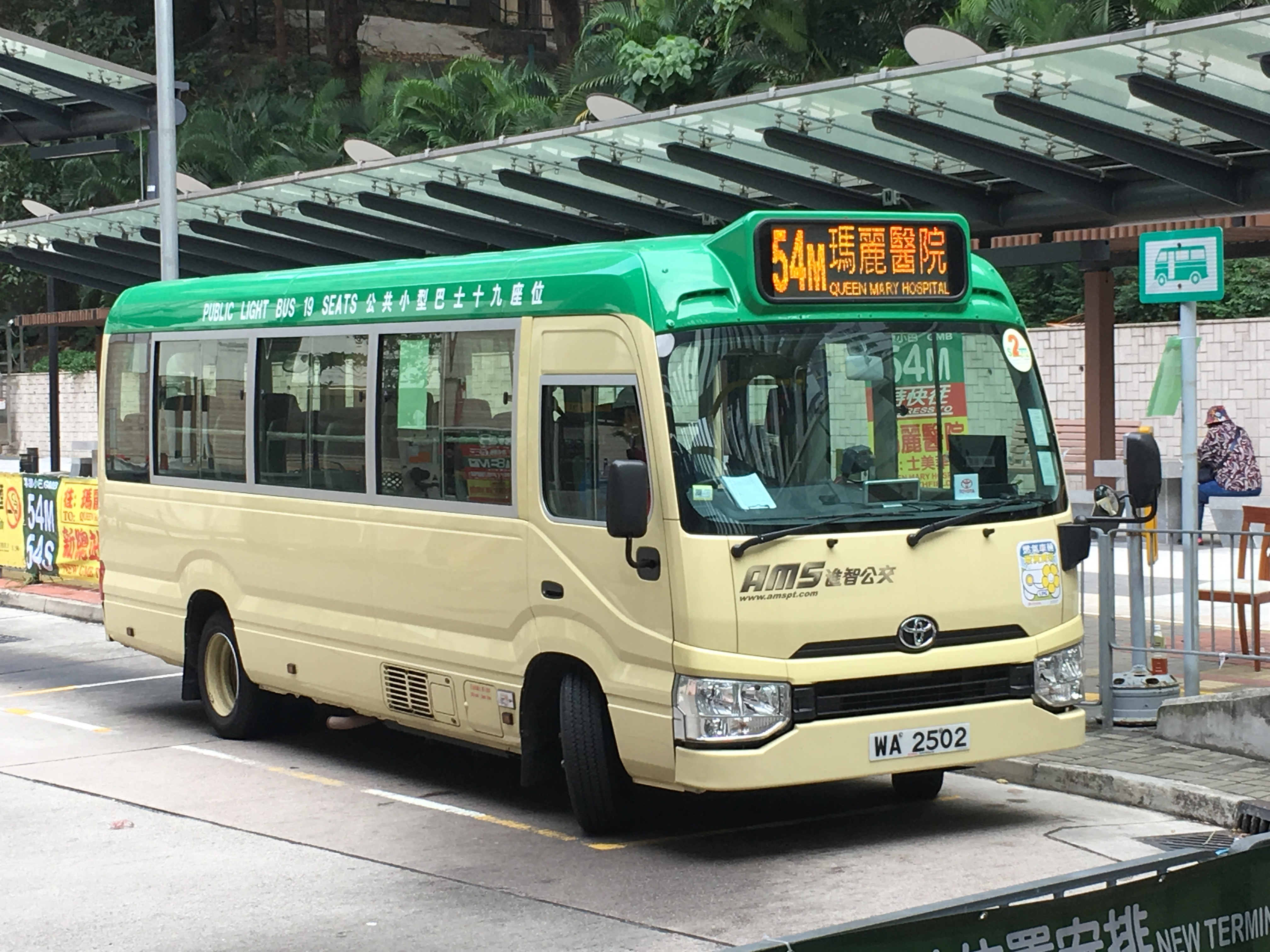 中文（香港）: This photo is taken in Kennedy Town Station.